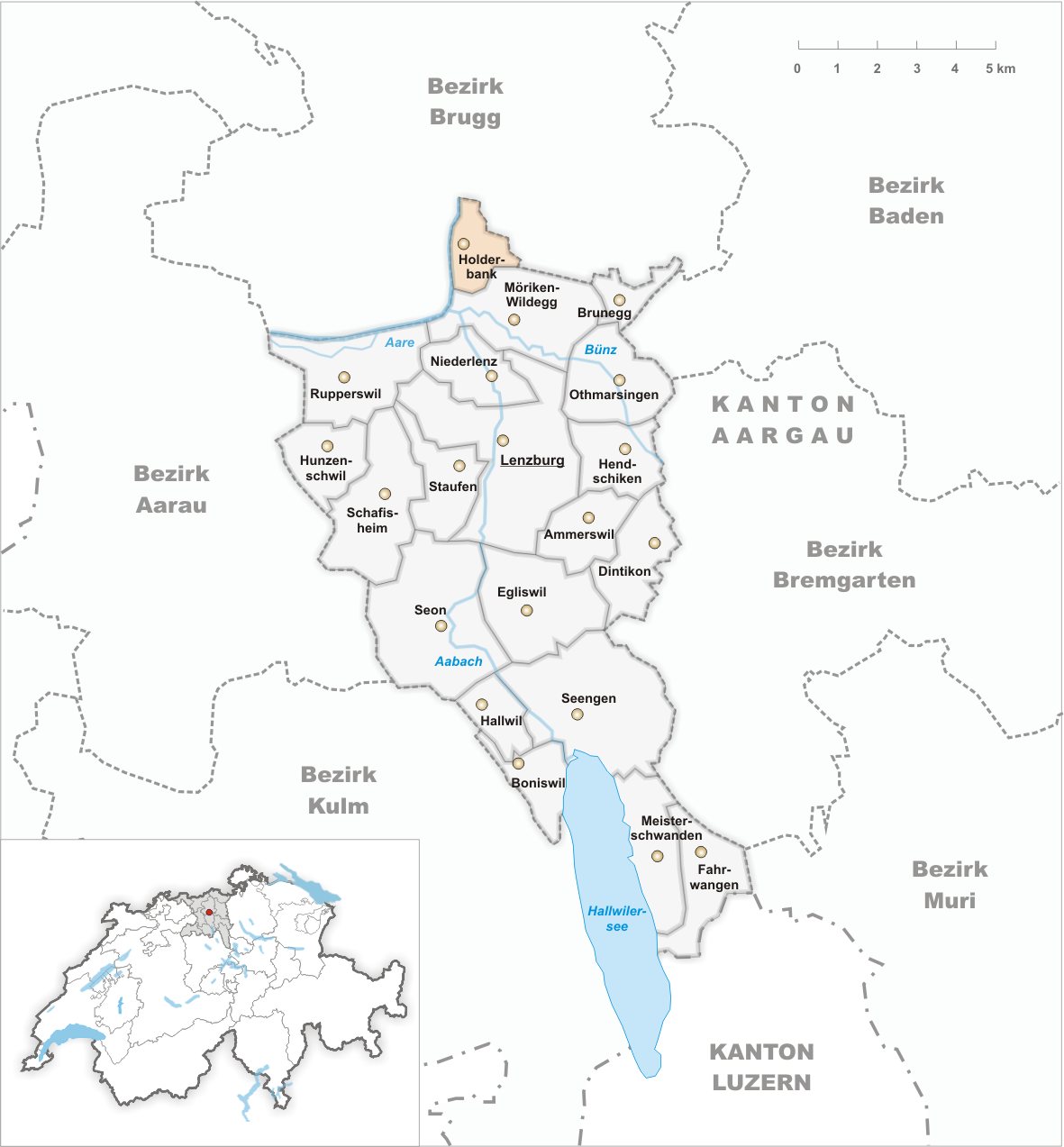 Municipality Holderbank